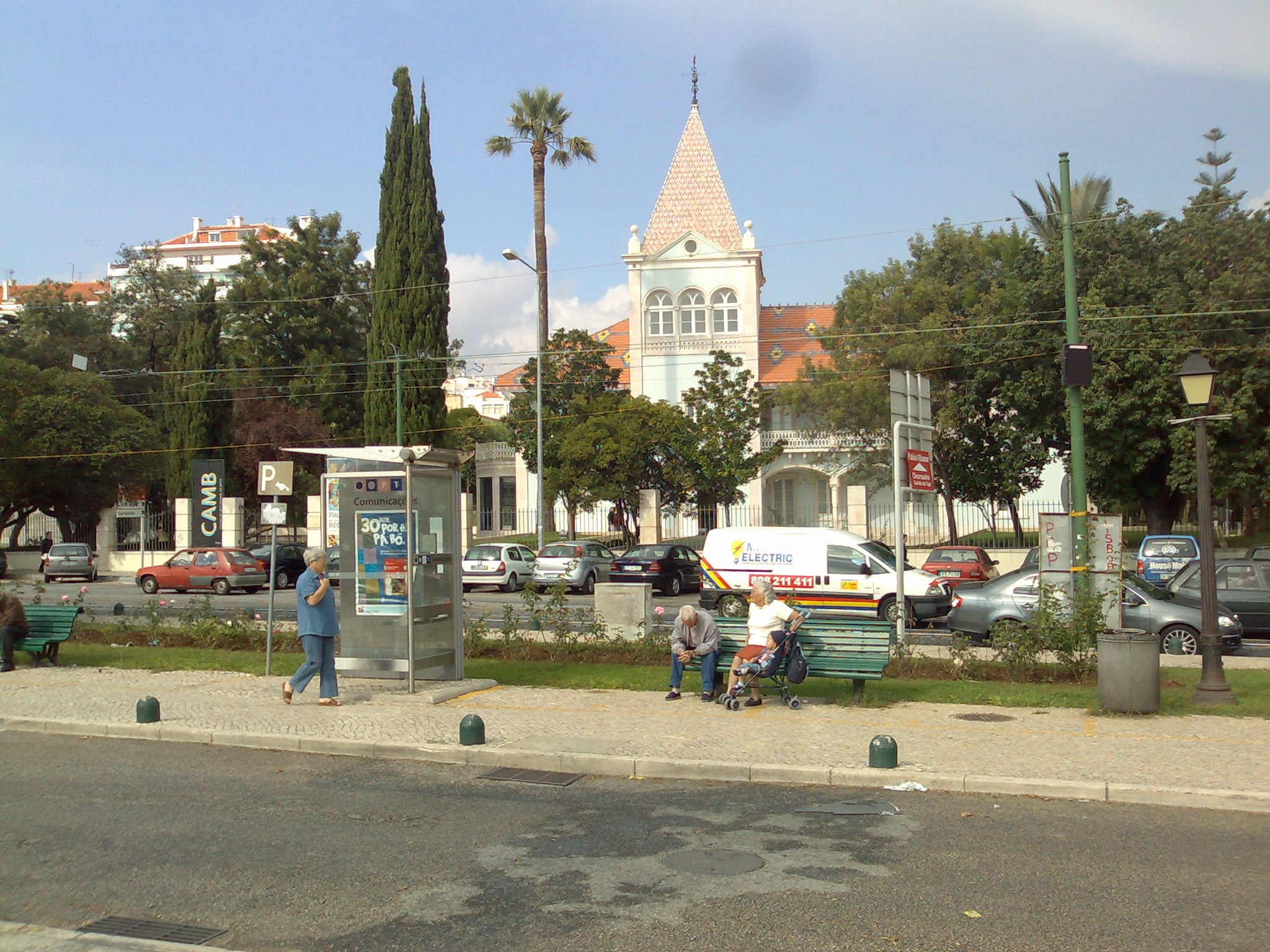 Palácio Anjos, Algés, Portugal